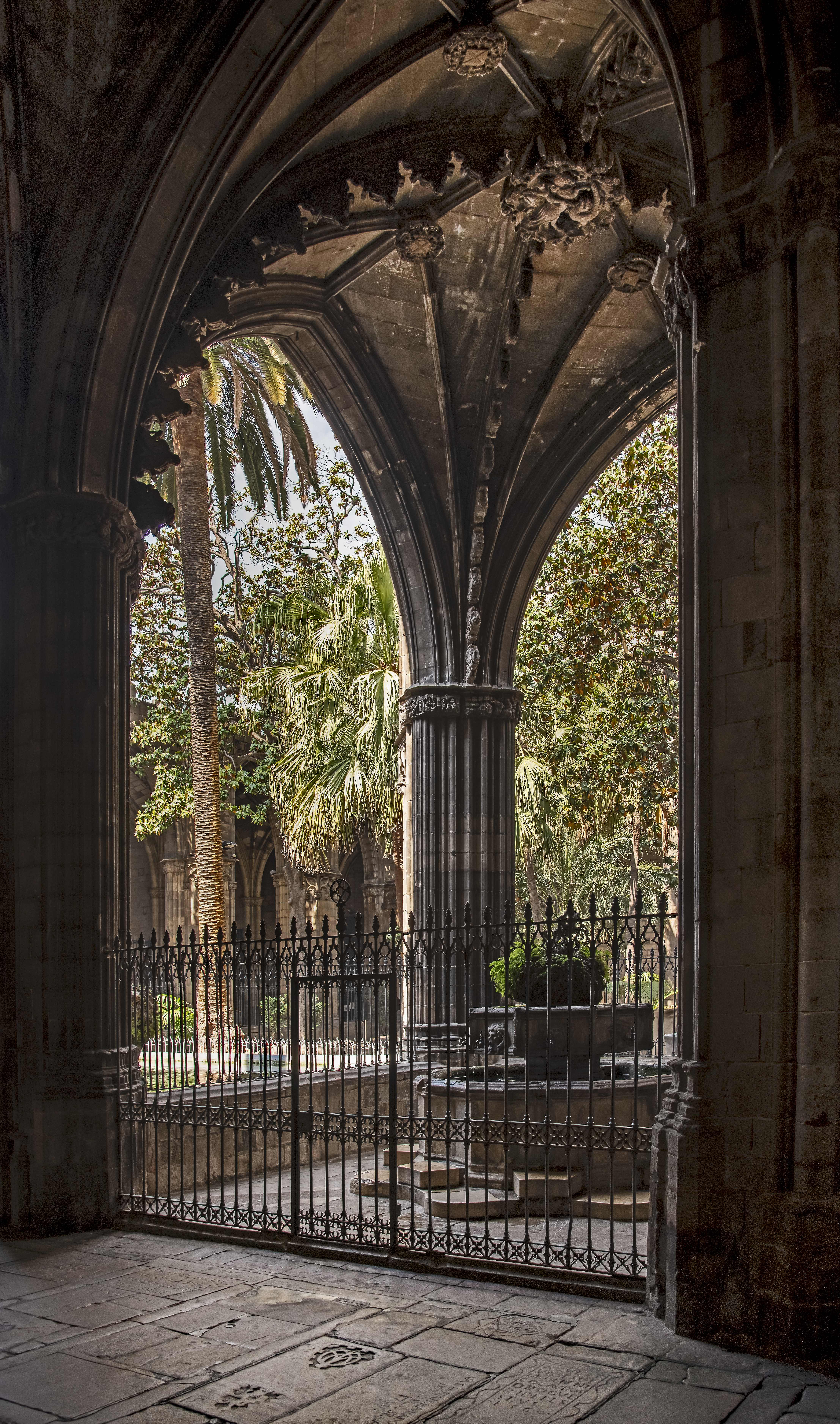 The Cathedral of the Holy Cross and Saint Eulalia in Barcelona. The fountain Saint Georges and the cloister.